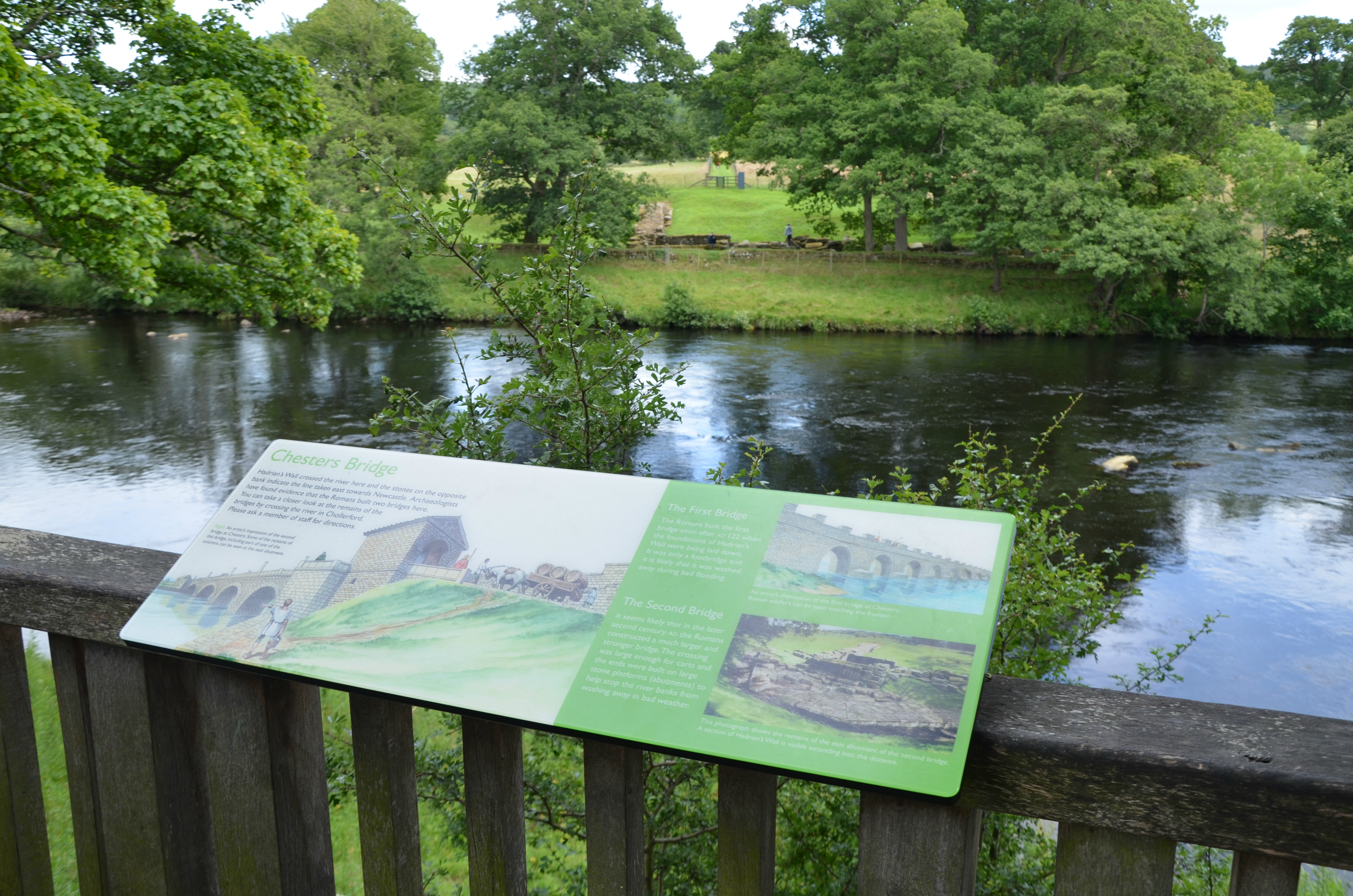 The viewing platform overlooking the site of the west end of the Roman bridge over the North Tyne, Chesters Roman Fort (Cilurnum), Hadrian's Wall